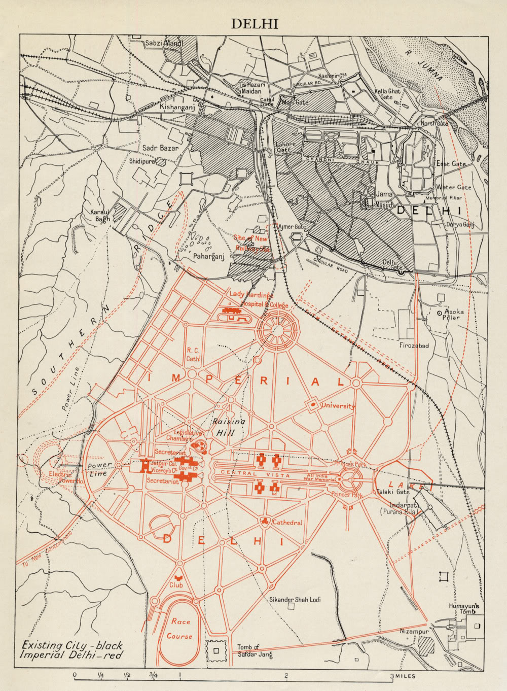 A map of Lutyens' projected "Imperial Delhi", from the Encyclopedia Britannica, 11th ed., 1910-12.